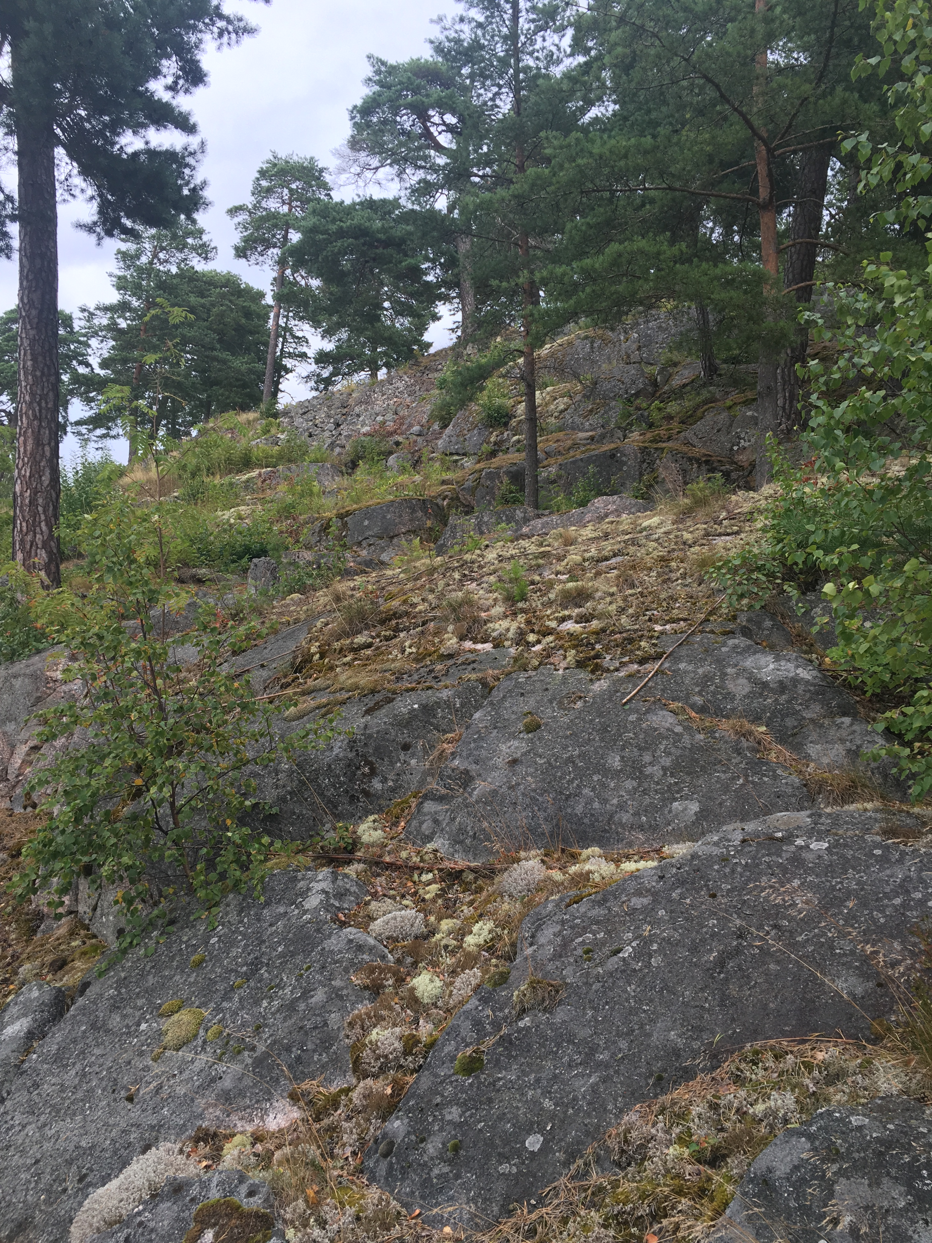 Hillfort Viksberg, stone wall